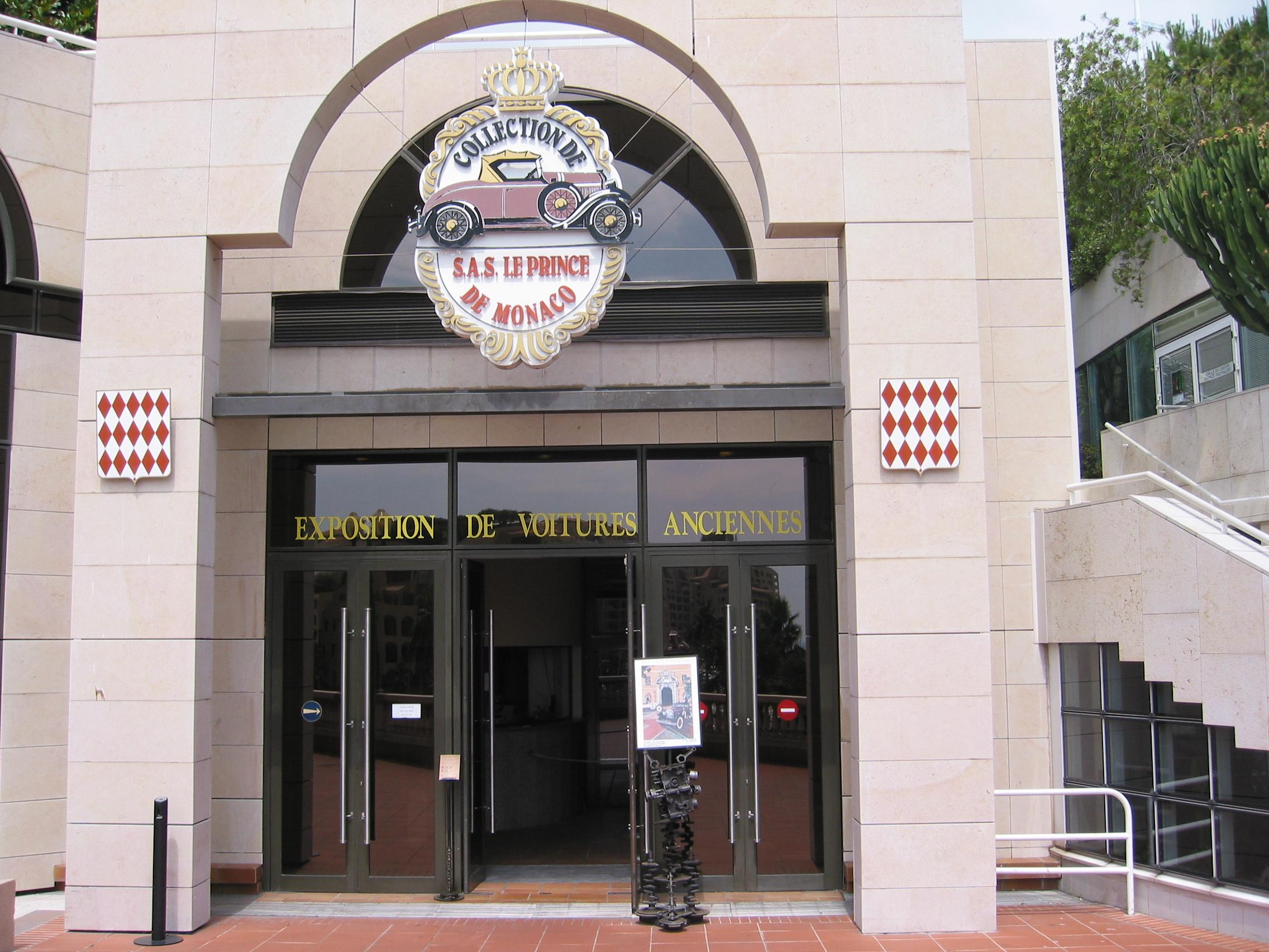 Building of the Car Museum in Monaco